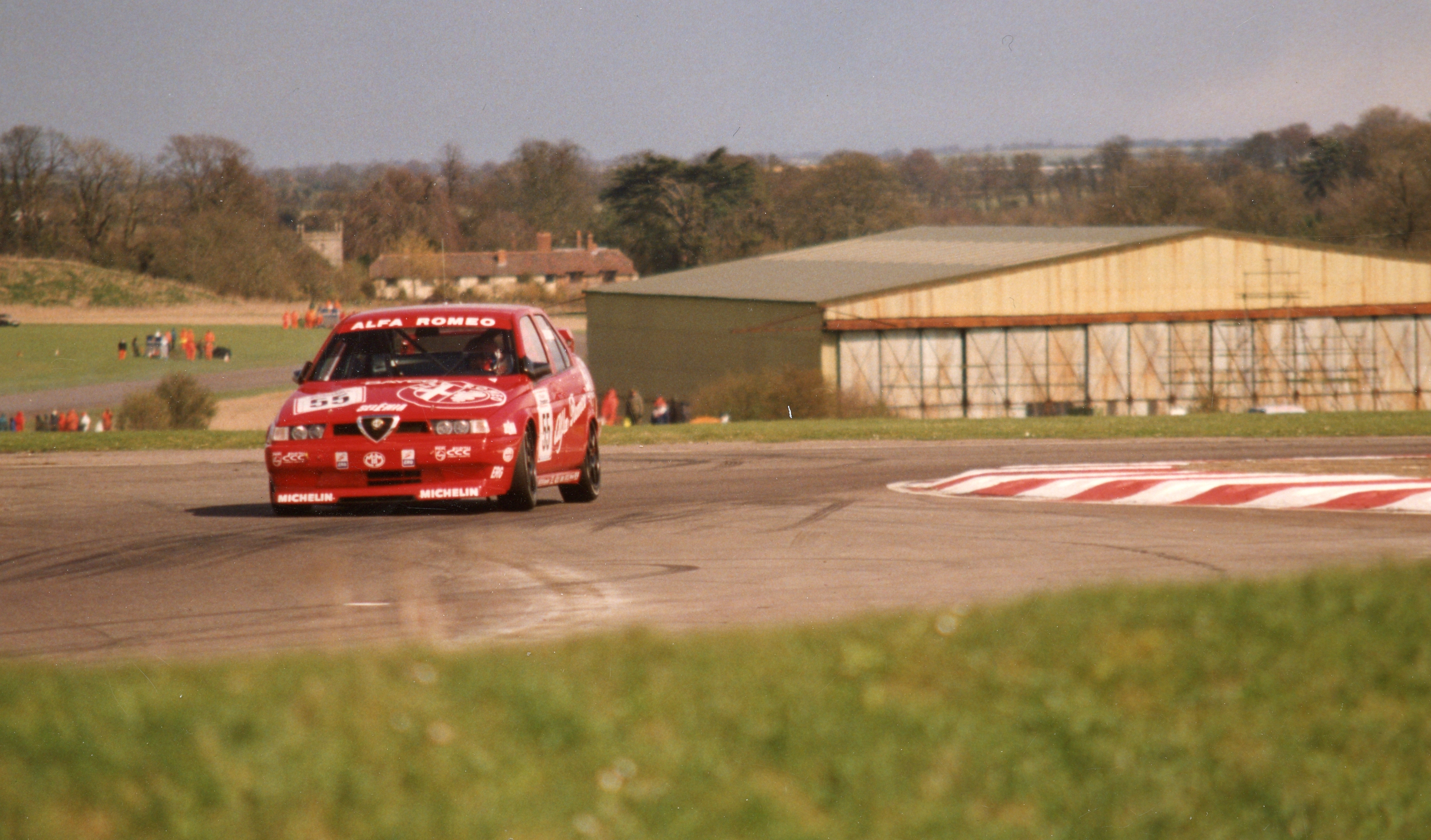 Gabriele Tarquini Alfa Romeo 155 BTCC Truxton 4th April 1994 Team: Alfa Corse